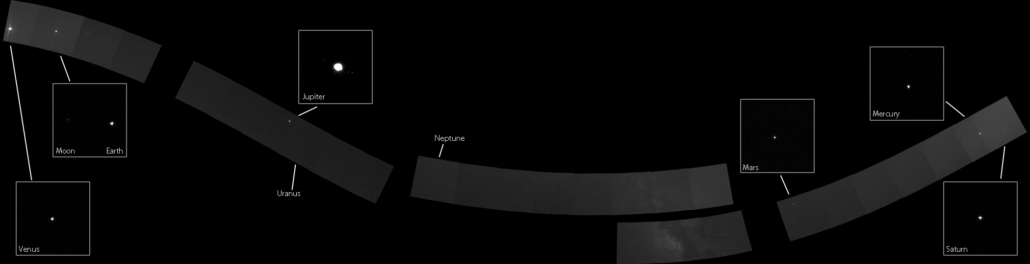 NASA's MESSENGER spacecraft has constructed the first portrait of our solar system by combining 34 images taken by the spacecraft’s Wide Angle Camera. The mosaic, pieced together over a period of a few weeks, comprises all of the planets in the solar system.